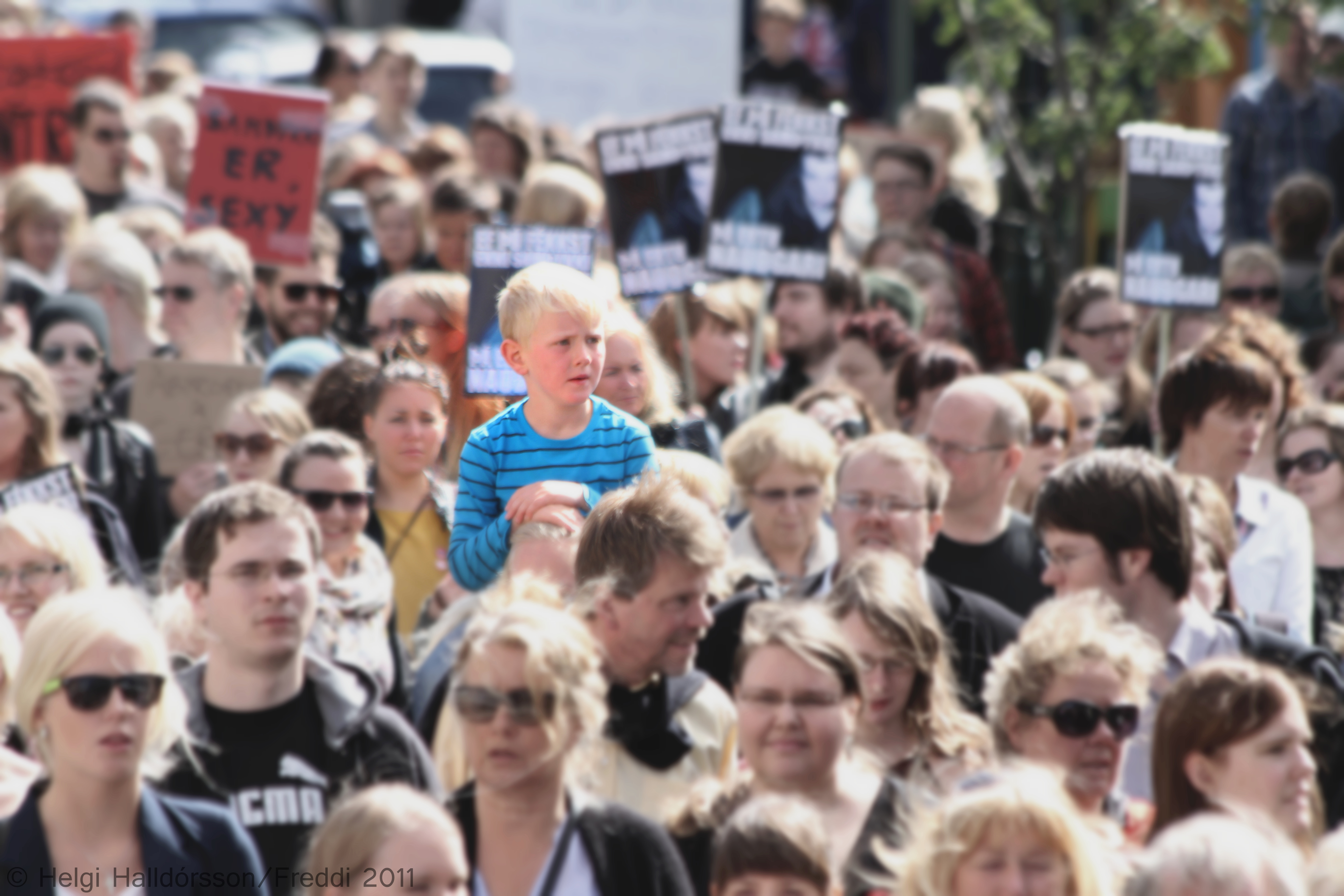 In the past three months, people across the world have united in a global protest against stereotypical ideas that the victims of sexual assault are somehow to blame for the attack.